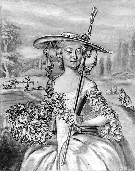 Friherrinnan Sigrid Eva Stromberg (1726-1800), teckning i halvfigur kallat "Våren", 1739 av Lorentz Pasch den äldre (1702-1766).